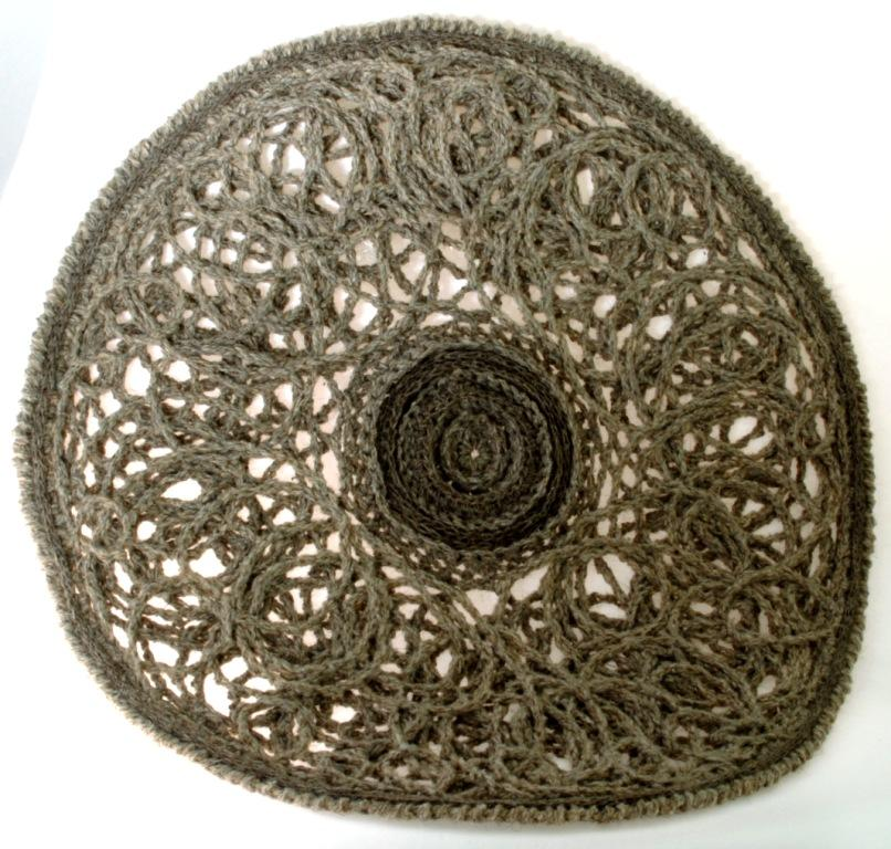 Салфетка выполнена коротким крючком на плотной бумаге по авторской технологии-Патент РФ № 2093625 на изобретение "Способ вязания"